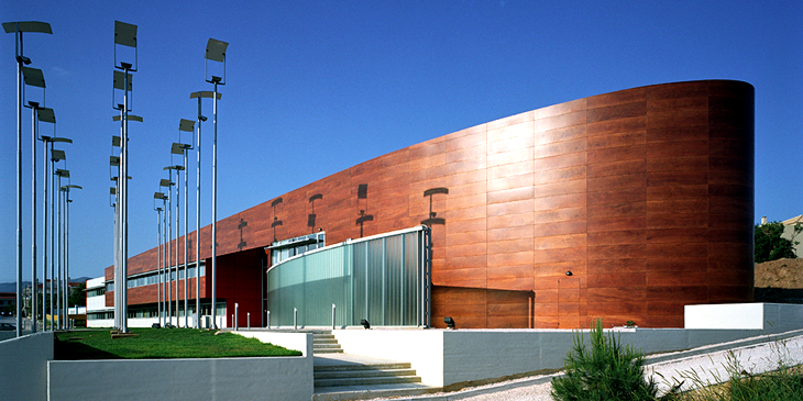 Town Hall and Cultural Centre of the Municipality of Gerakas in Athens. Work of Dimitris Potiropoulos